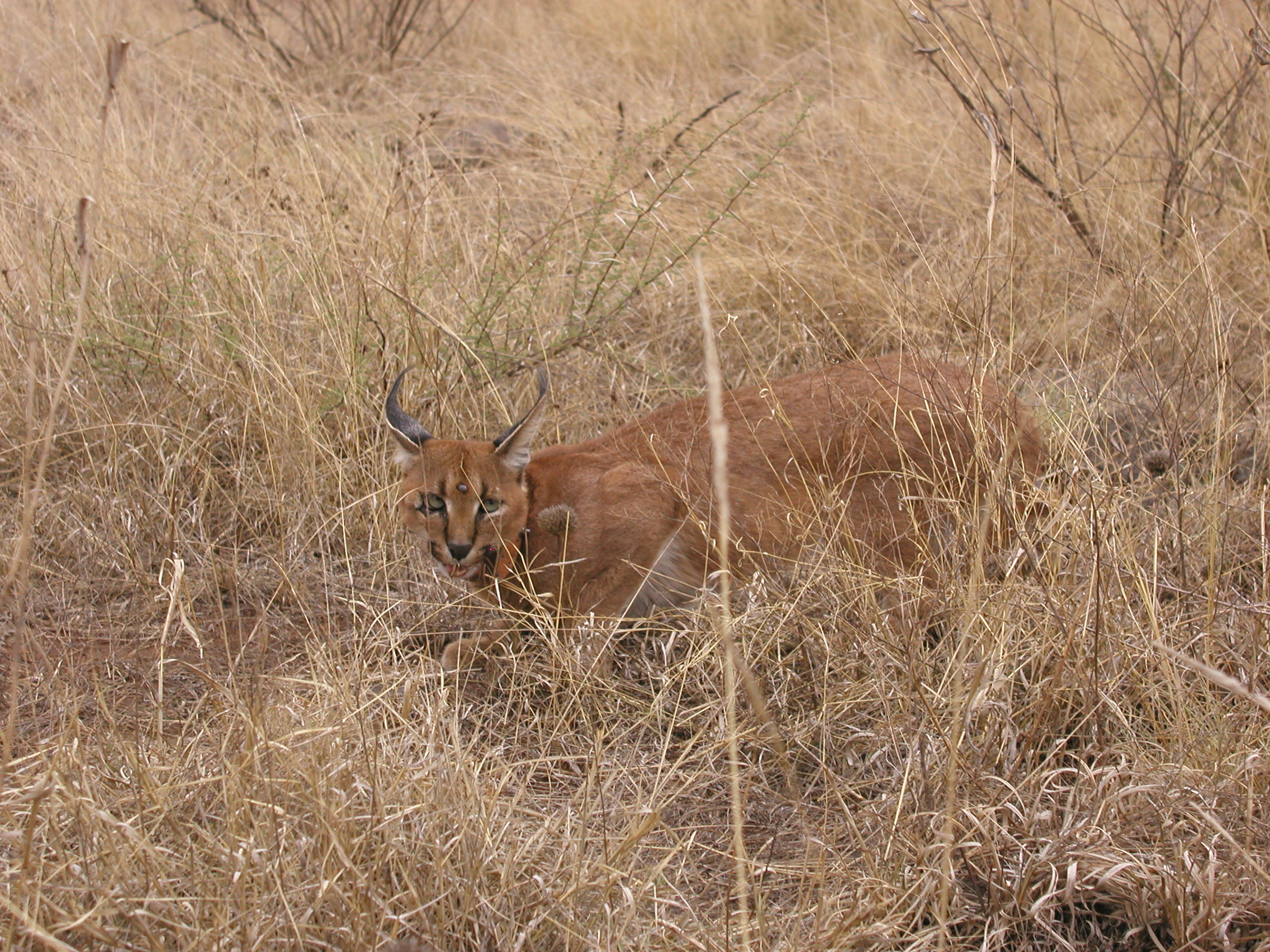 Caracal - with a rather natty tick in the middle of his forehead.